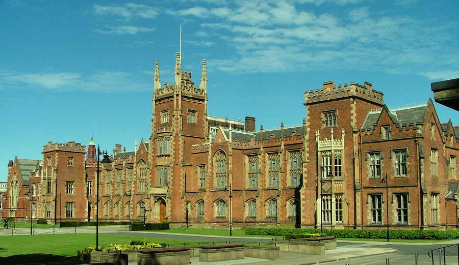 Queen's University of Belfast